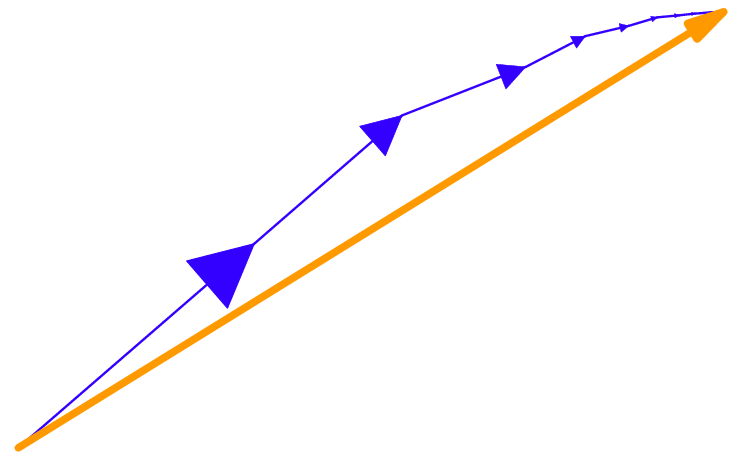 Illustration of completeness in a Hilbert space. A particle moving along a piecewise linear path, travelling a finite total distance, must have a well-defined displacement.